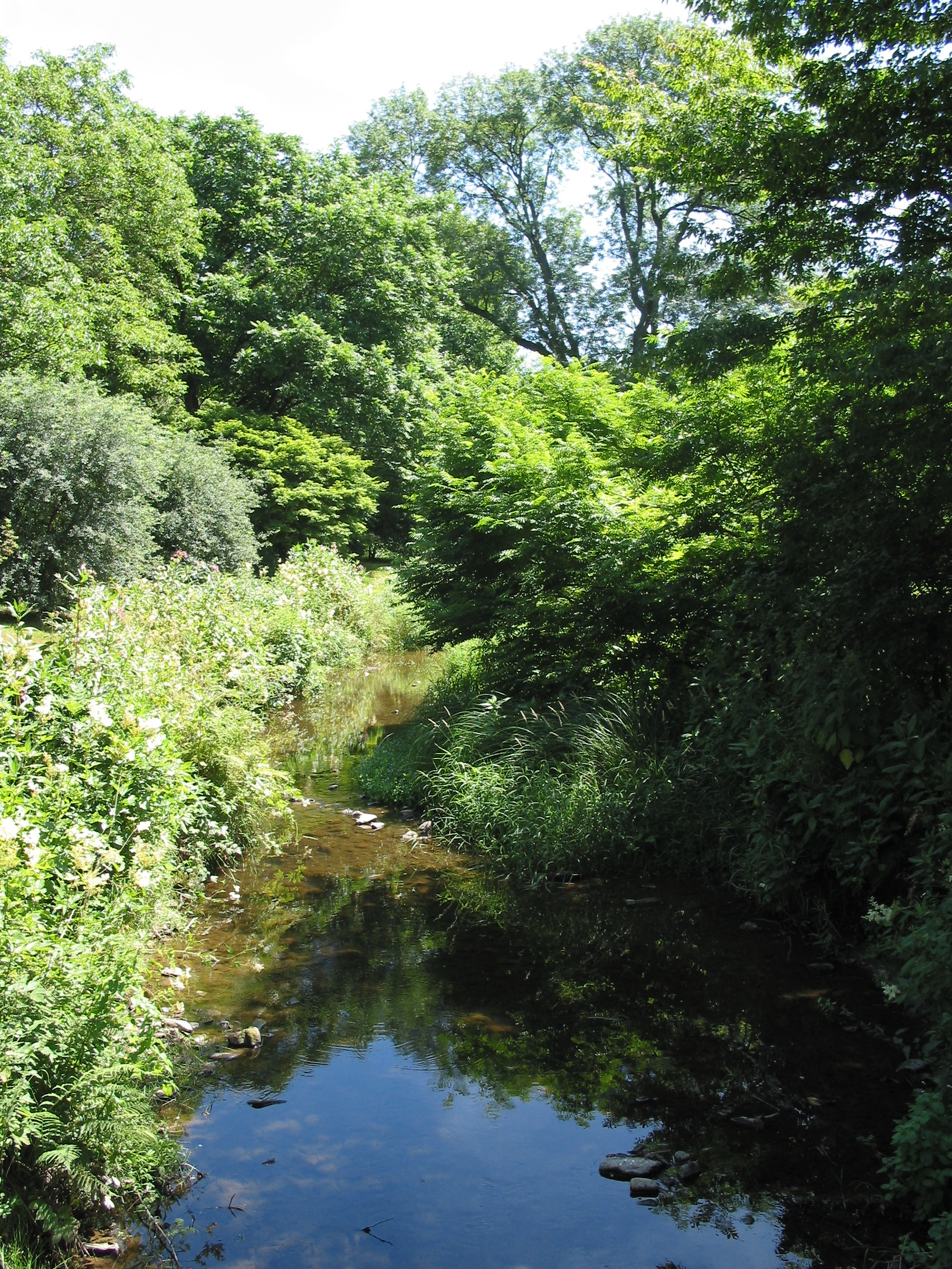 Rendeux (Belgium), the arboretum Robert Lenoir.